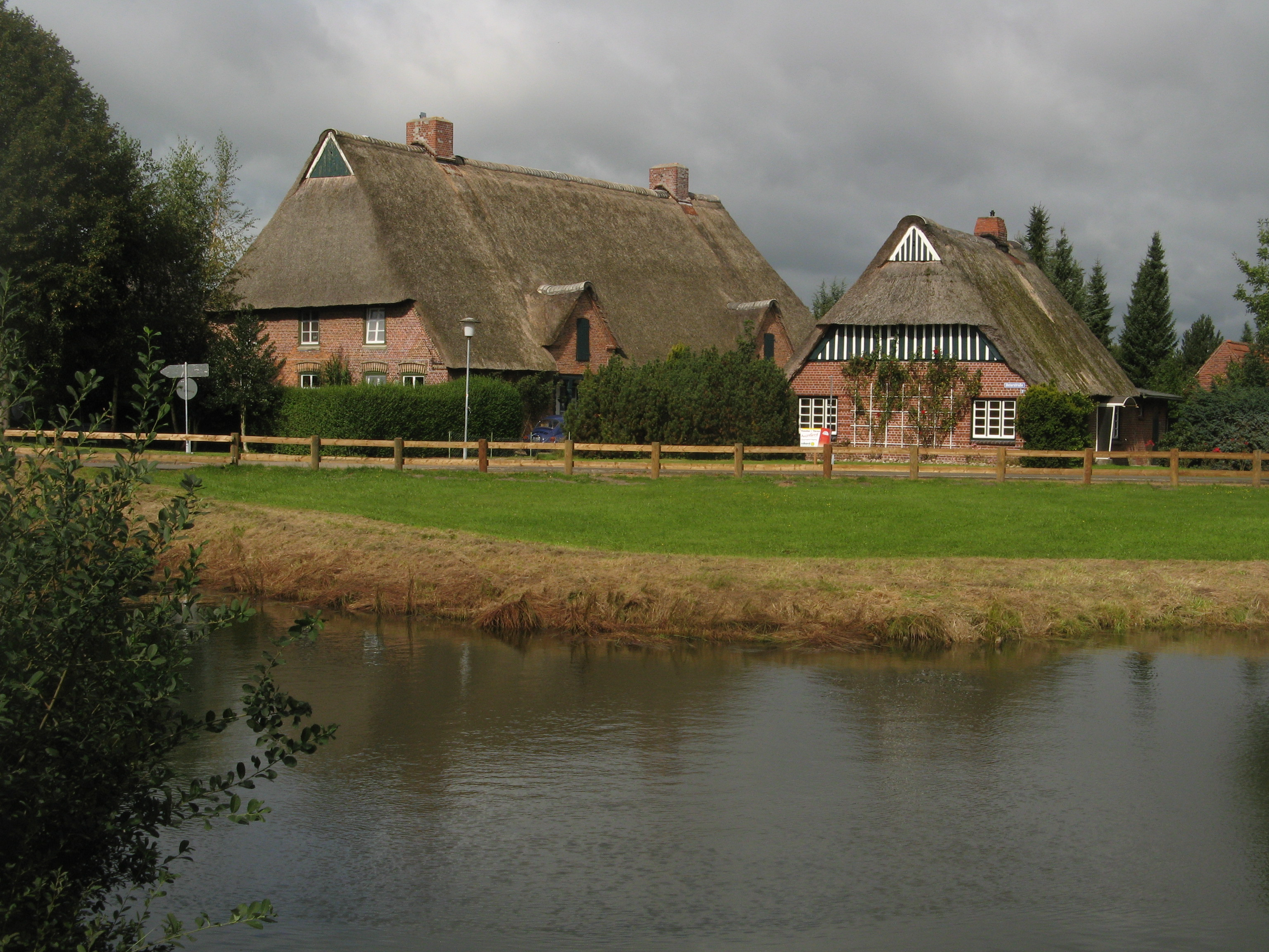 Houses in Breitenburg, Holstein, Germany